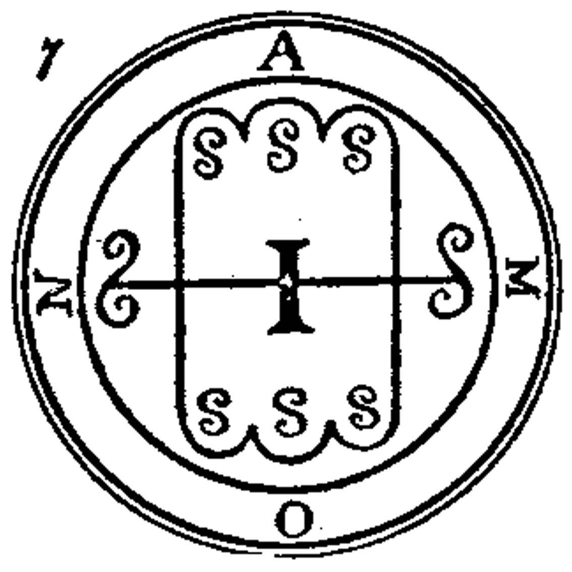 The seal of the demon Amon, see List of demons in the Ars Goetia